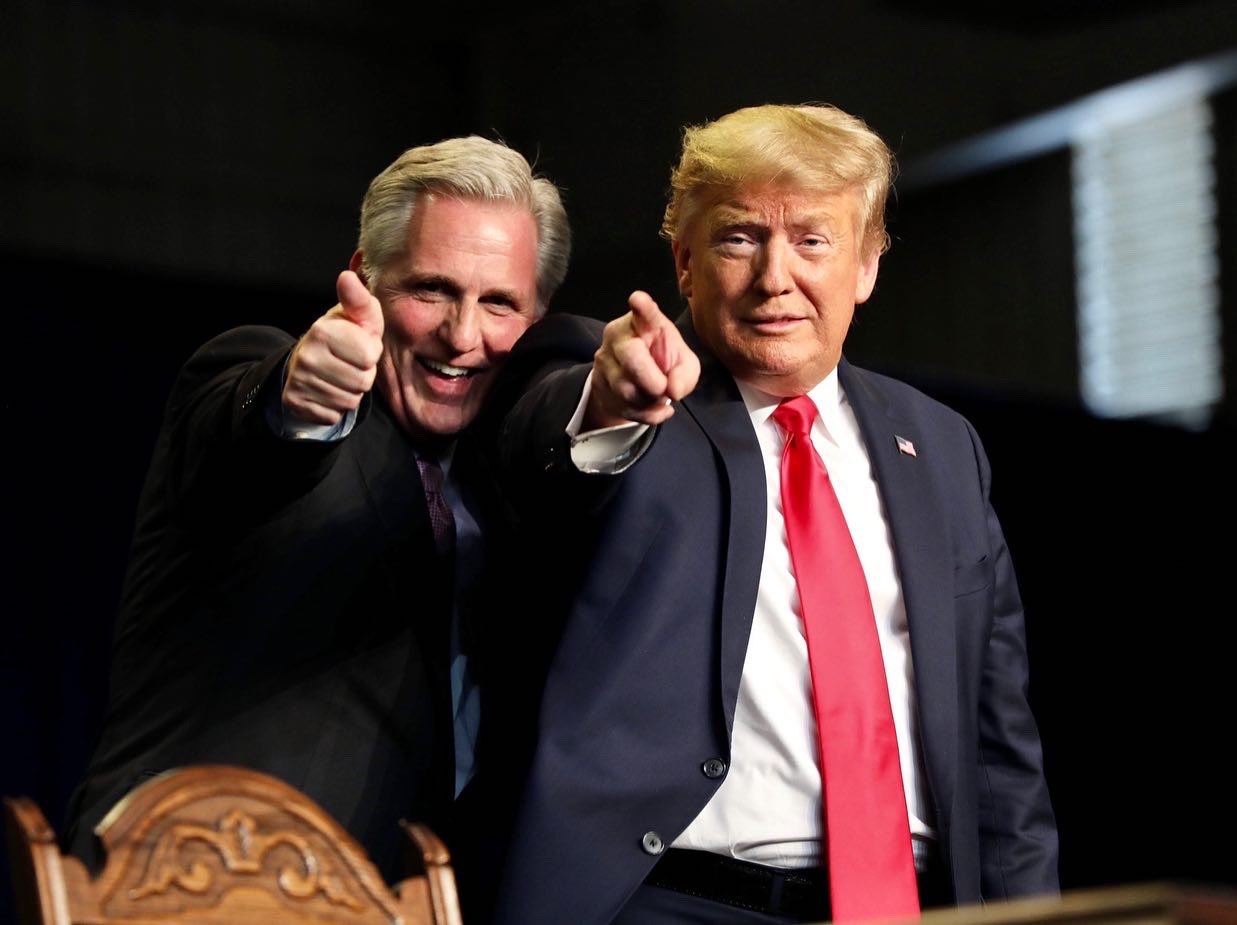 THANK YOU, President @realDonaldTrump for coming to Bakersfield and for keeping your promises to America’s farmers! 👍🏼🇺🇸👍🏼🇺🇸